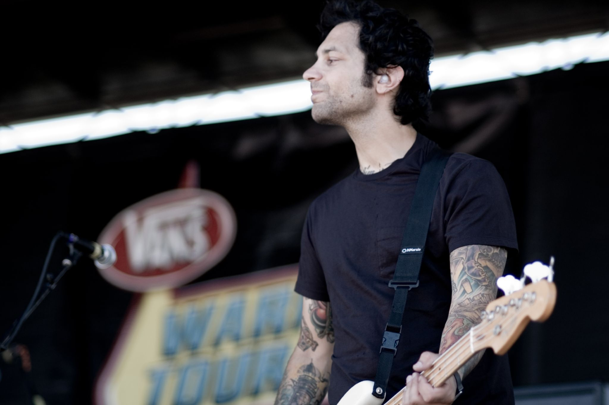 Rise Against's Joe Principe